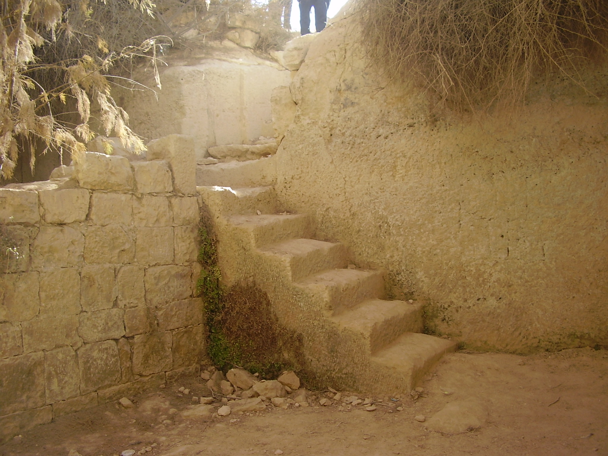 Nabatean water cistern in the negev, israel